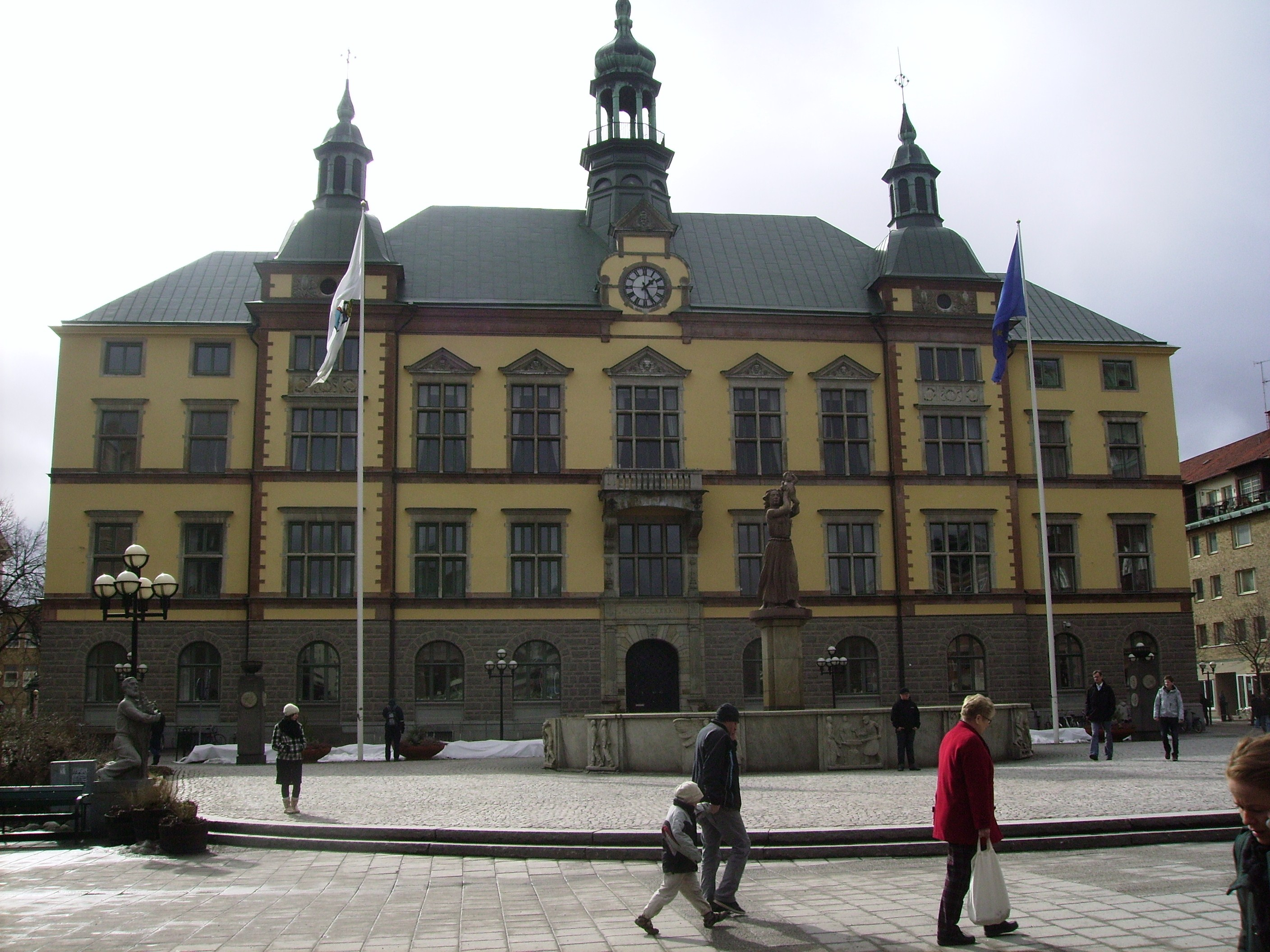 Picture of city hall in Eskilstuna